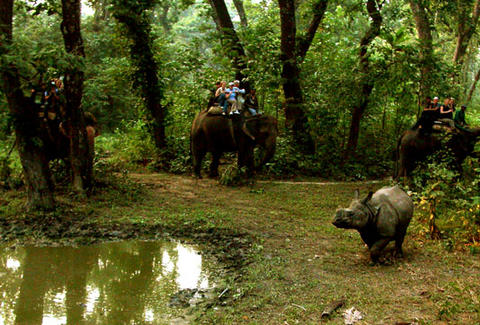 © Leonardo C. Fleck